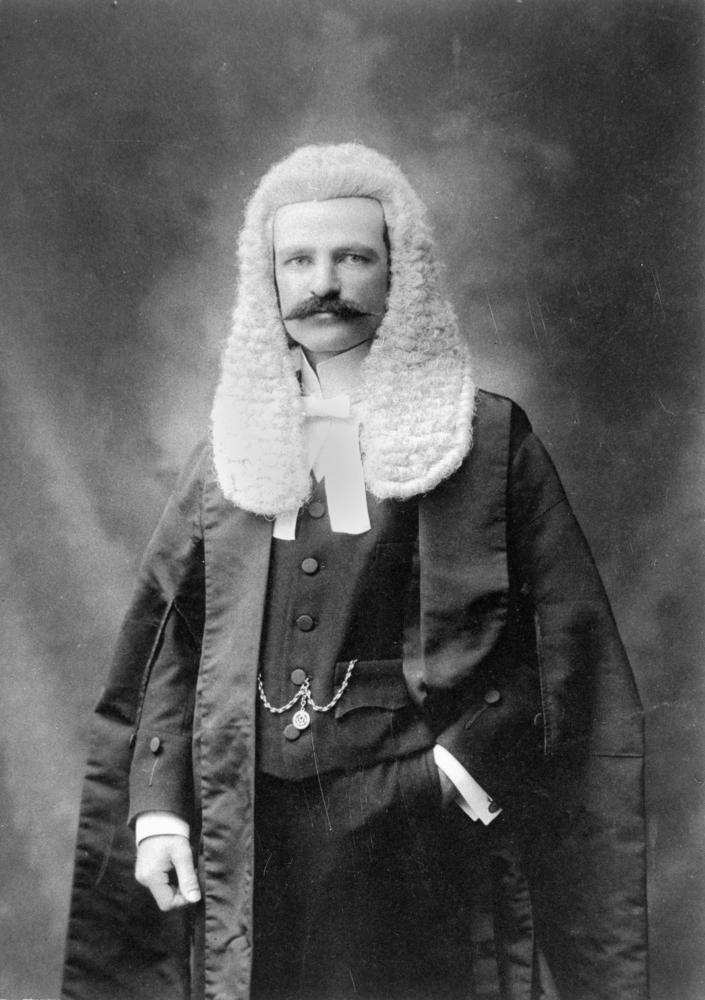 Sir James William Blair.